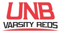 UNB Varsity Reds logo